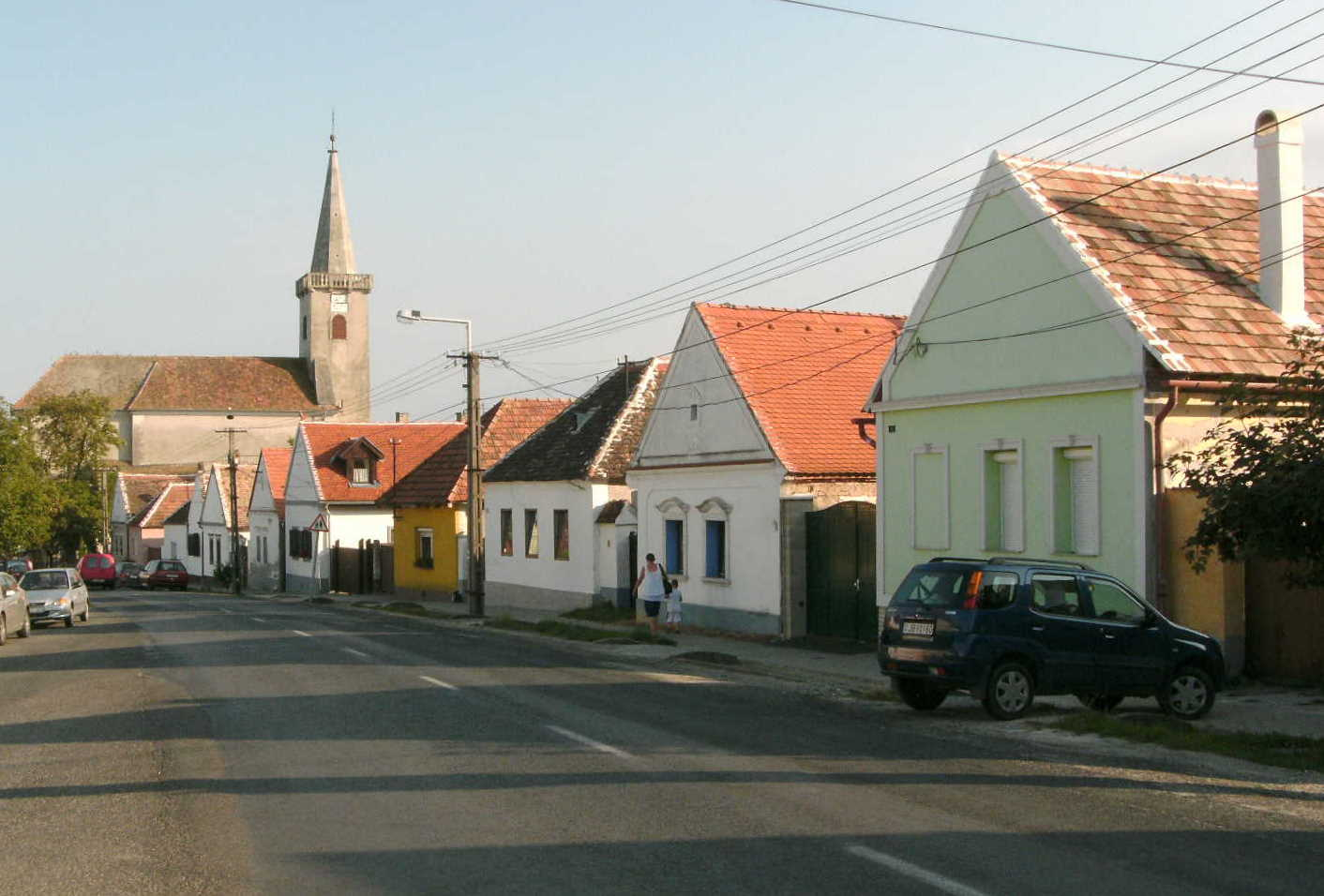 Main street and parish church of Fertőrákos, Győr-Moson-Sopron county, Hungary